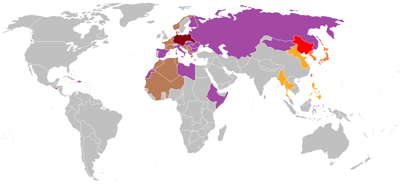 Foreign recognition of Manchukuo (c. 1942) Manchukuo Japan Japanese-influenced satellite governments which recognized Manchukuo Nazi Germany German-occupied areas, or areas under German-influenced satellite governments Countries recognizing Manchukuo